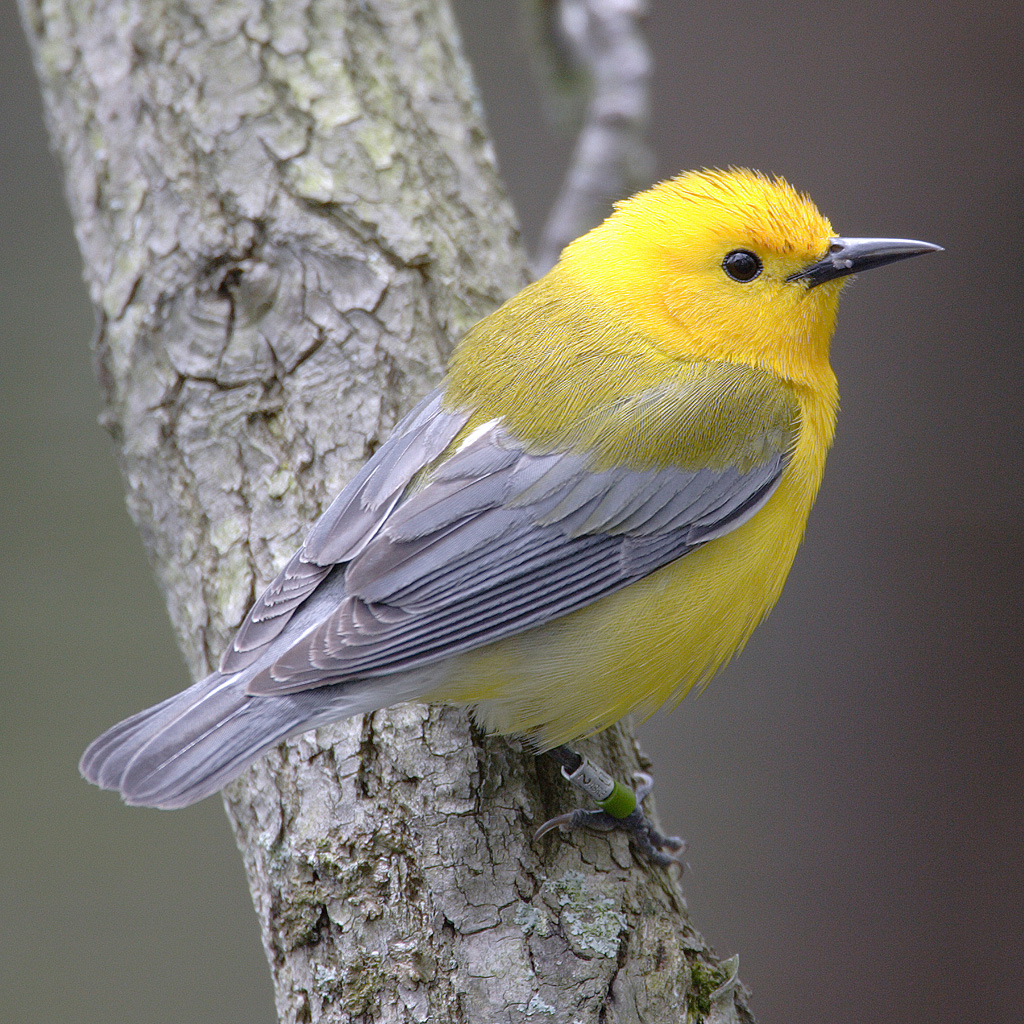 Prothonotary Warbler (Protonotaria citrea), -- Rondeau Provincial Park -- 2005